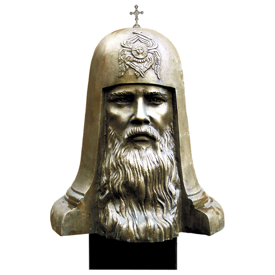 Портрет Патриарха Алексия II.